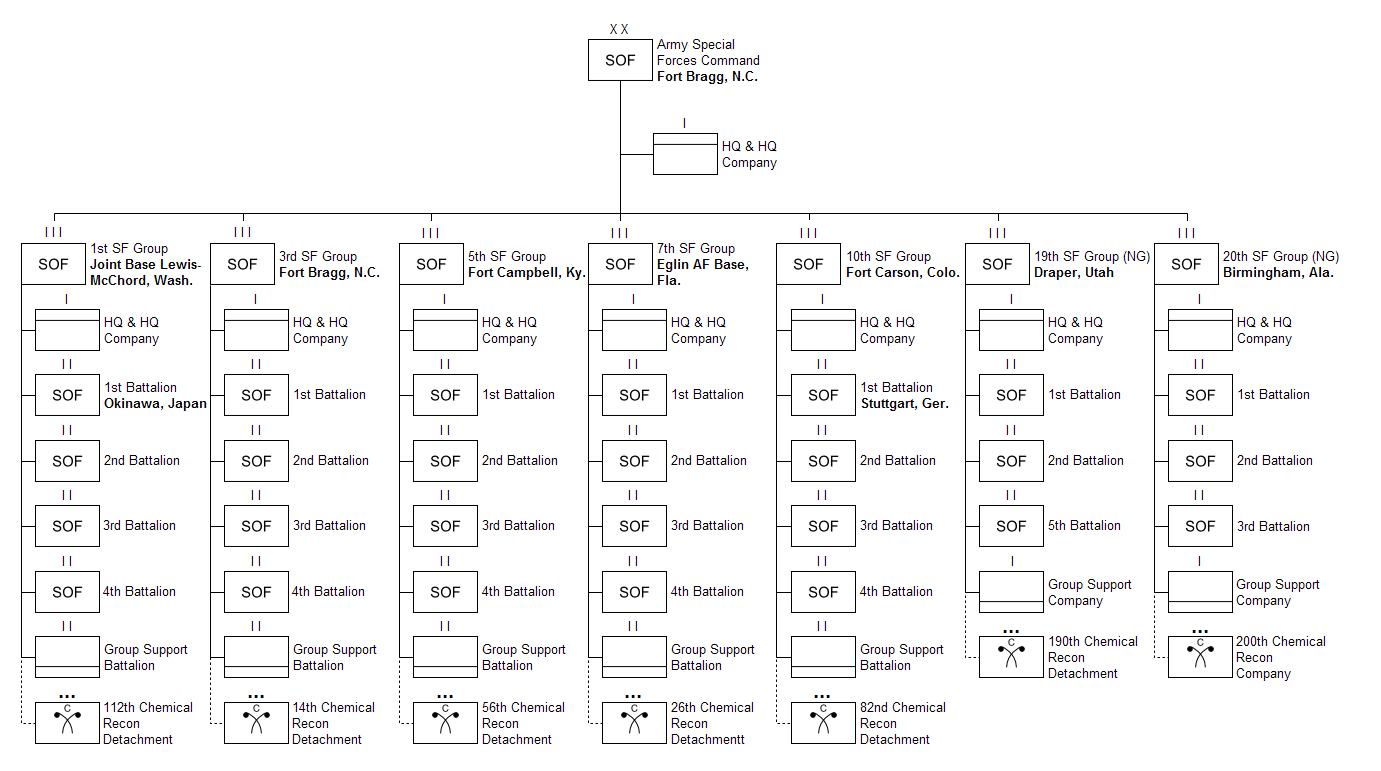 Organization of the USASFC(A)